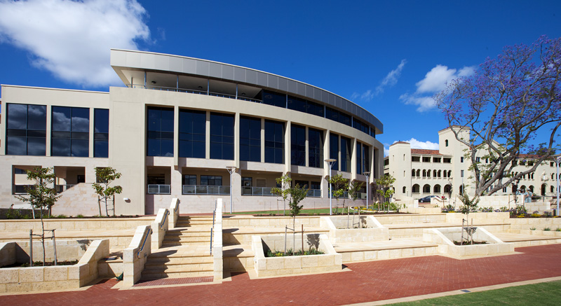 Santa Maria College 2015